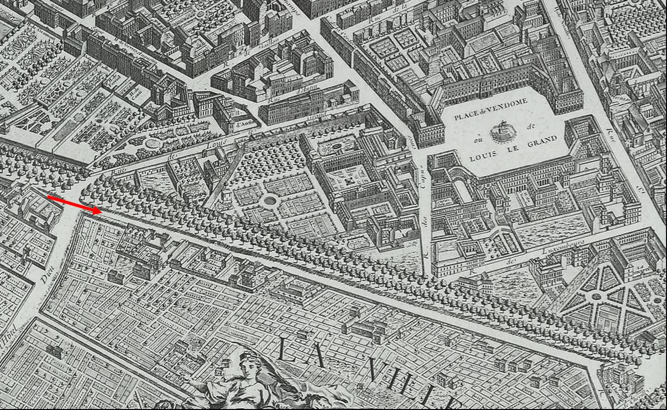 From the plan de Turgot (1736), the boulevard between the places nowadays of rue de la Chaussée-d'Antin and place de la Madeleine. The rue Basse-du-Rempart (=Low street wall) is shown by a red arrow. It was parallel to the boulevard on the exterior side.